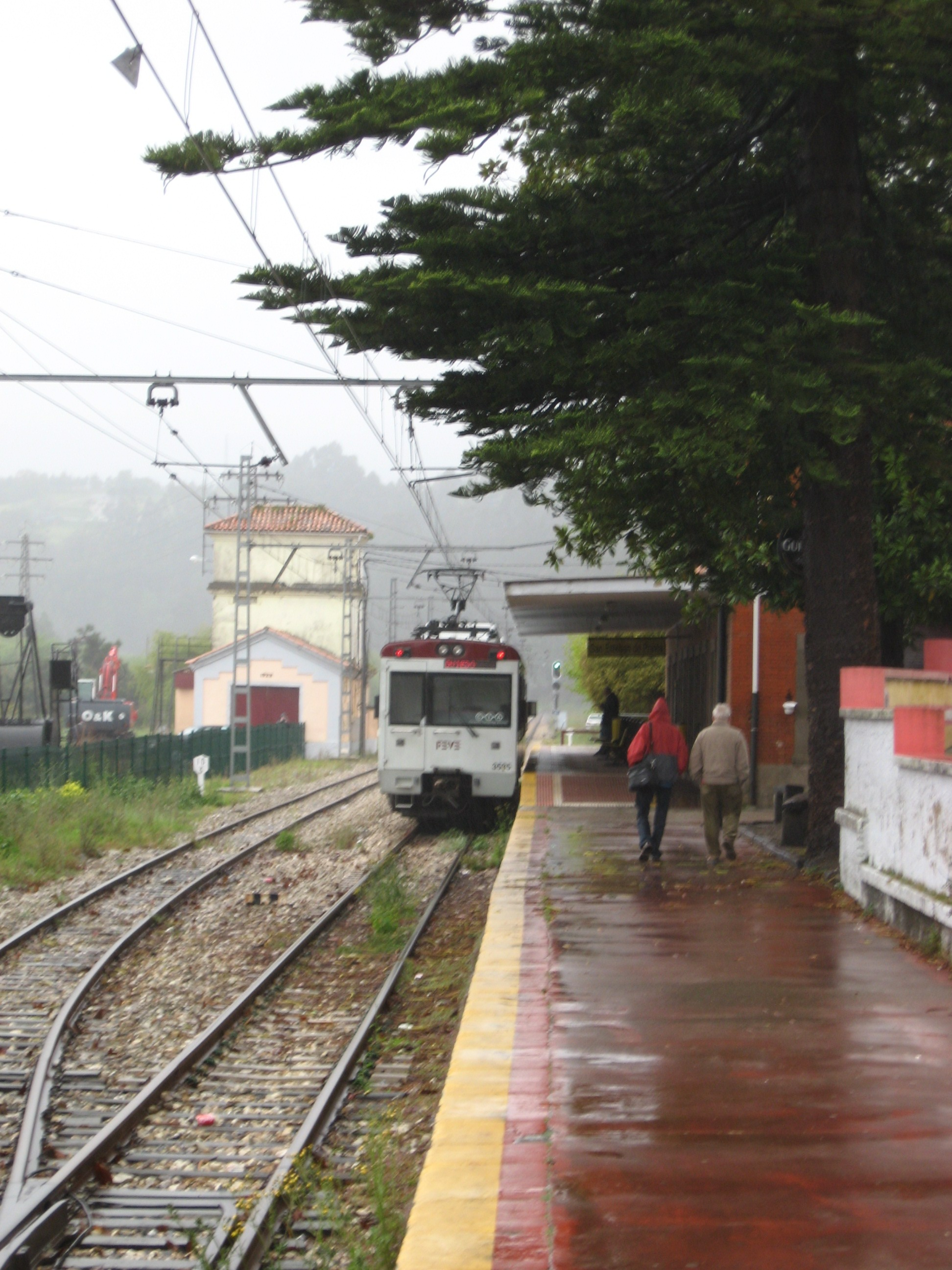 Endstation of the FEVE F7 line (Oviedo - San Esteban) at the coastal village.